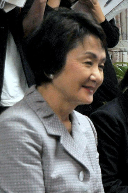 Fumiko Hayashi at the Yokohama City Hall, in Yokohama, Kanagawa, Japan.